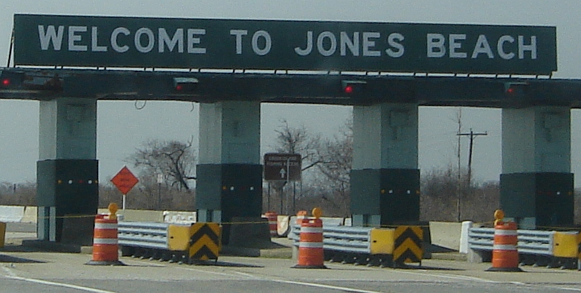 Jones Beach Toll Plaza located on Wantagh Parkway.